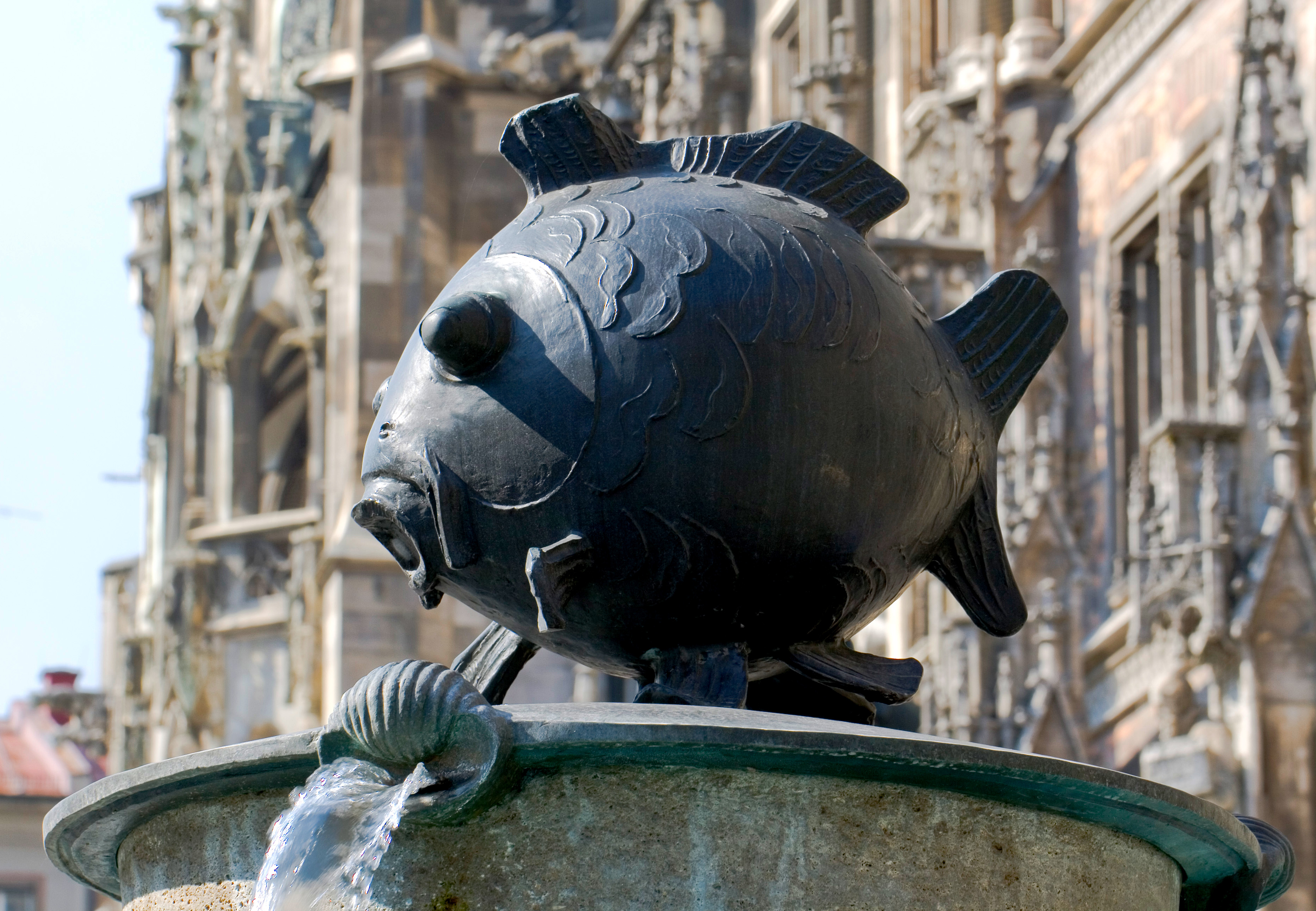 Fischbrunnen, Munich, Germany